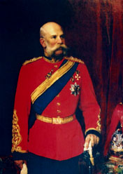 Franz Josef of Austria K.G. in the uniform of a Colonel-in-Chief 1st King's Dragoon Guards 1896 - 1914